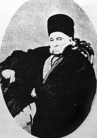 Georgios Afthonidis (1789-1867): Member of the Greek Revolutionary Filiki Etairia